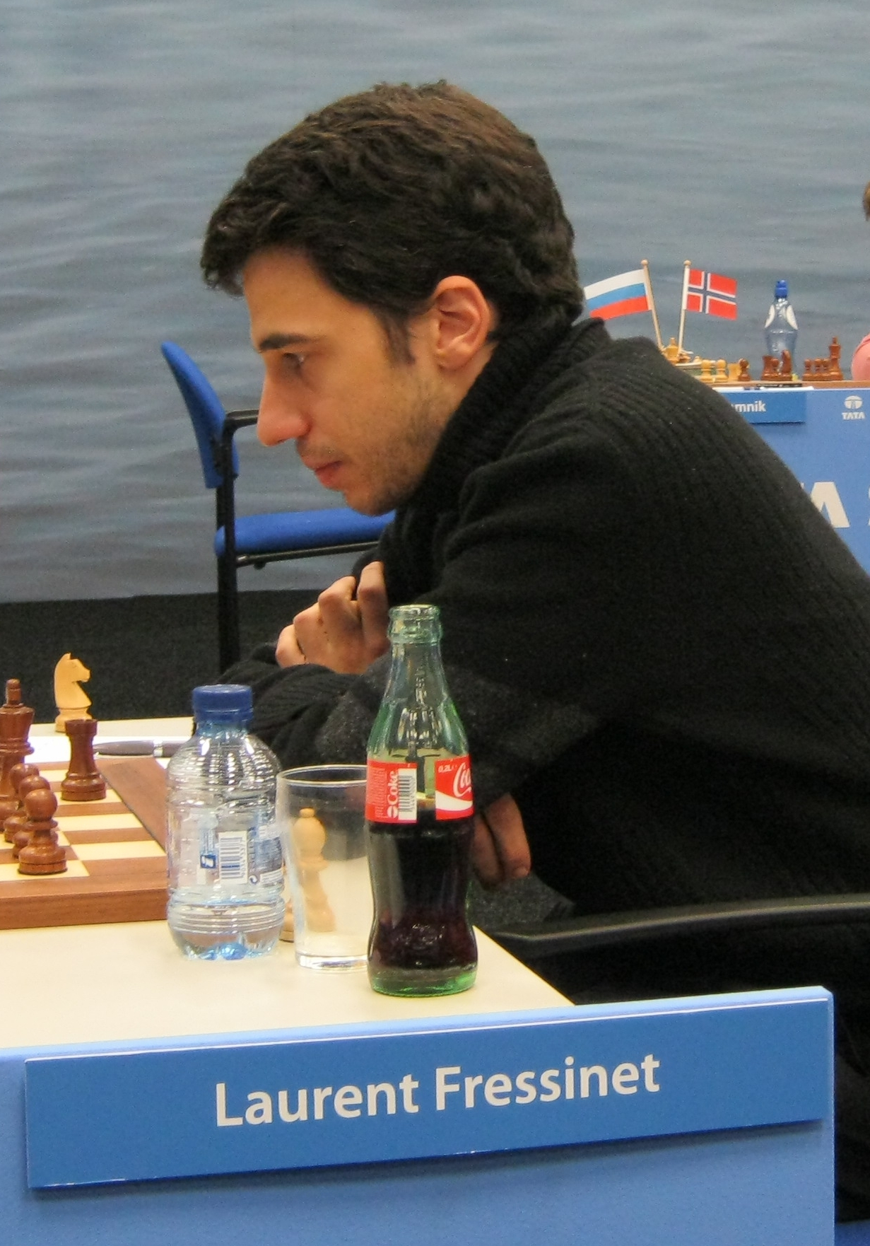 Laurent Fressinet, chess grandmaster from France